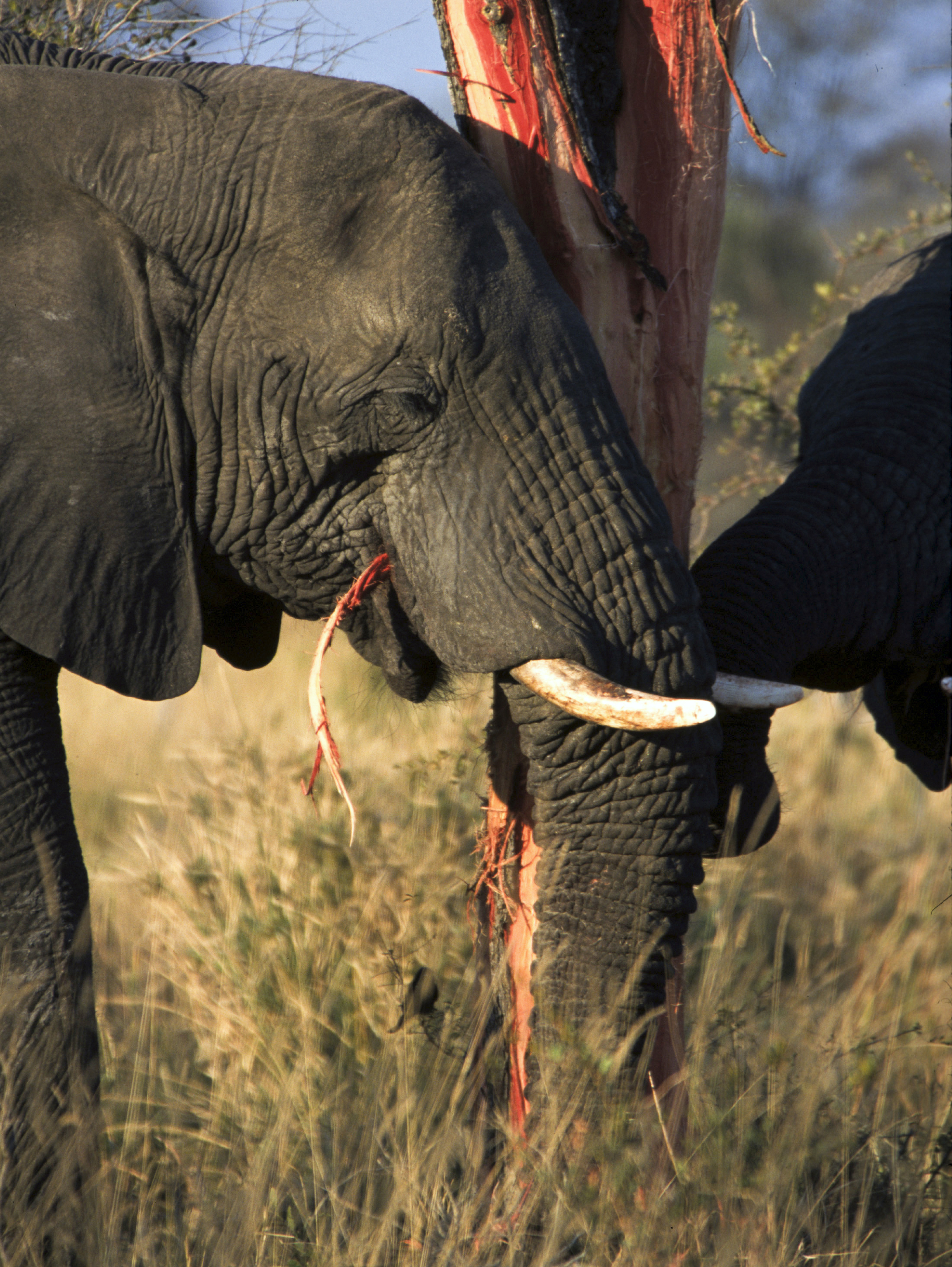 African Bush Elephant (Loxodonta Africana) in Kruger National Park, South Africa stripping and eating tree bark.